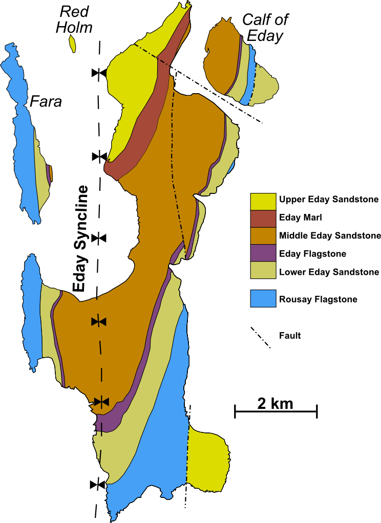 Geological map of Eday and neighbouring islands - modified from information on the BGS Geology Viewer [1] and the 1976 Regional Guide to Orkney & Shetland by Wally Mykura, BGS